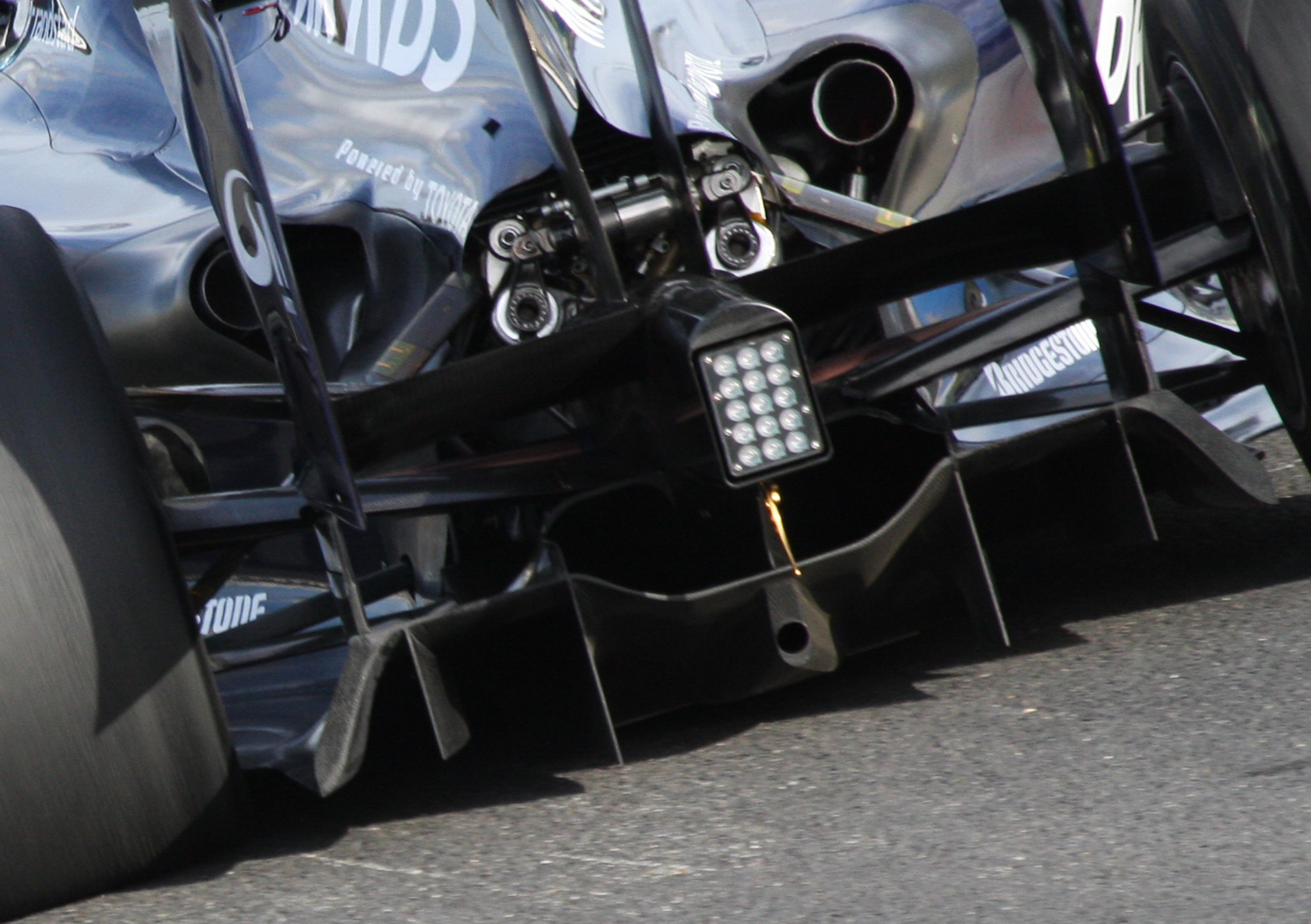 Williams FW31 (detail), F1 testing session, Jerez 10-Feb-2009